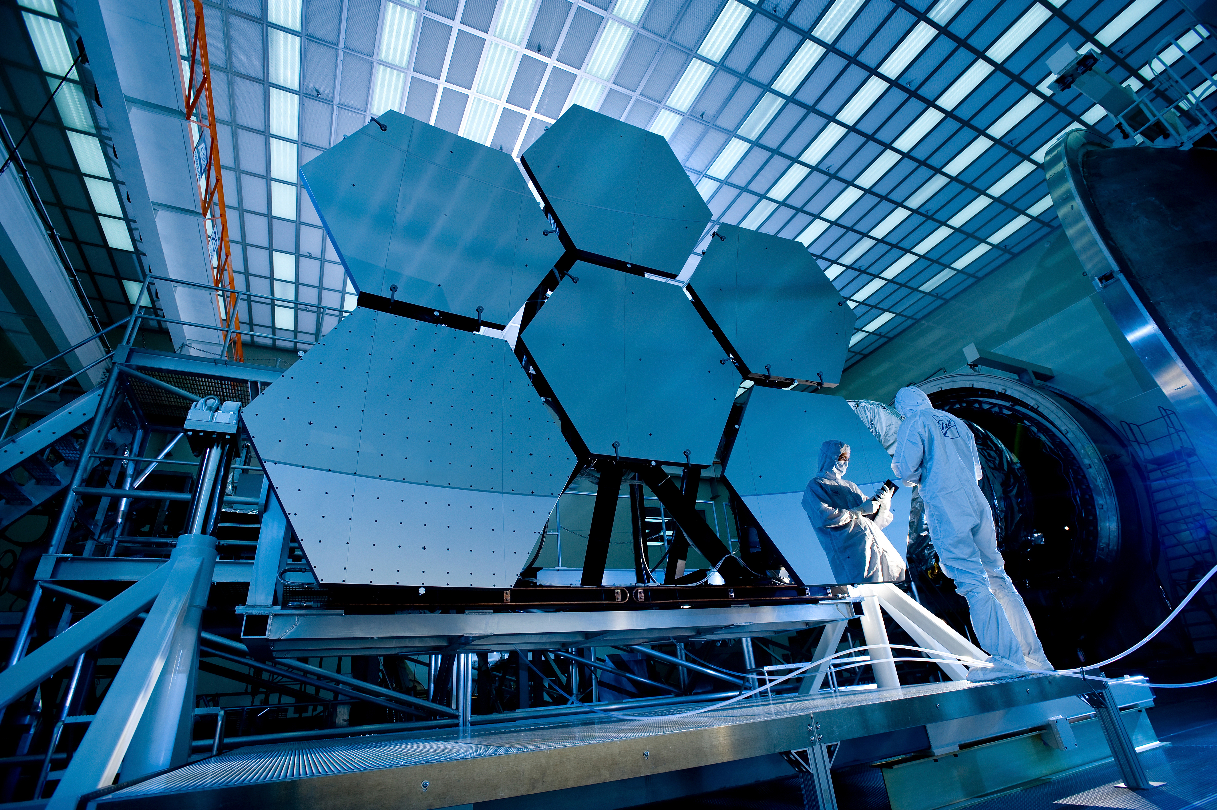 Caption: During cryogenic testing, the mirrors will be subjected to temperatures dipping to -415 degrees Fahrenheit, permitting engineers to measure in extreme detail how the shape of each mirror changes as it cools.